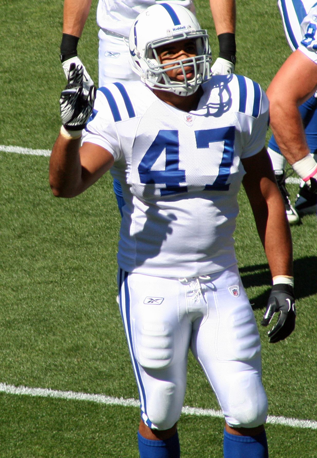 Gijon Robinson, a player on the Indianapolis Colts American football team.